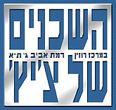 Chich's neighbors logo